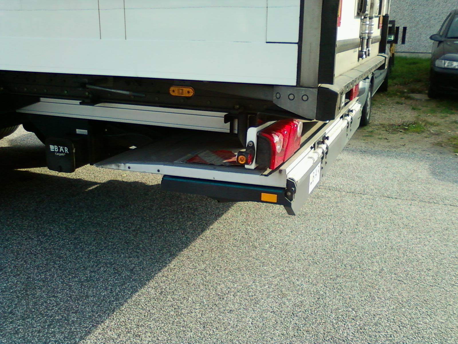 foldable tail lift fitted to a frigo trailer